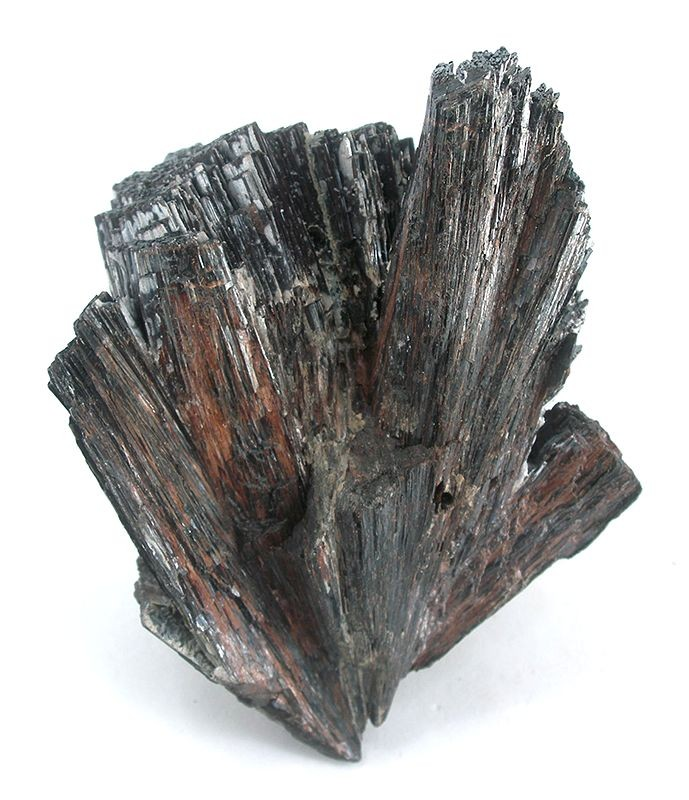 Hübnerite Locality: Howardsville, Silverton District, San Juan County, Colorado, USA (Locality at ) Size: 8.5 x 6.6 x 4.3 cm. A dramatic, hefty spray of hubnerite from this classic locality. The crystals are unusually well terminated. Ex. Rice Northwest Museum Collection.